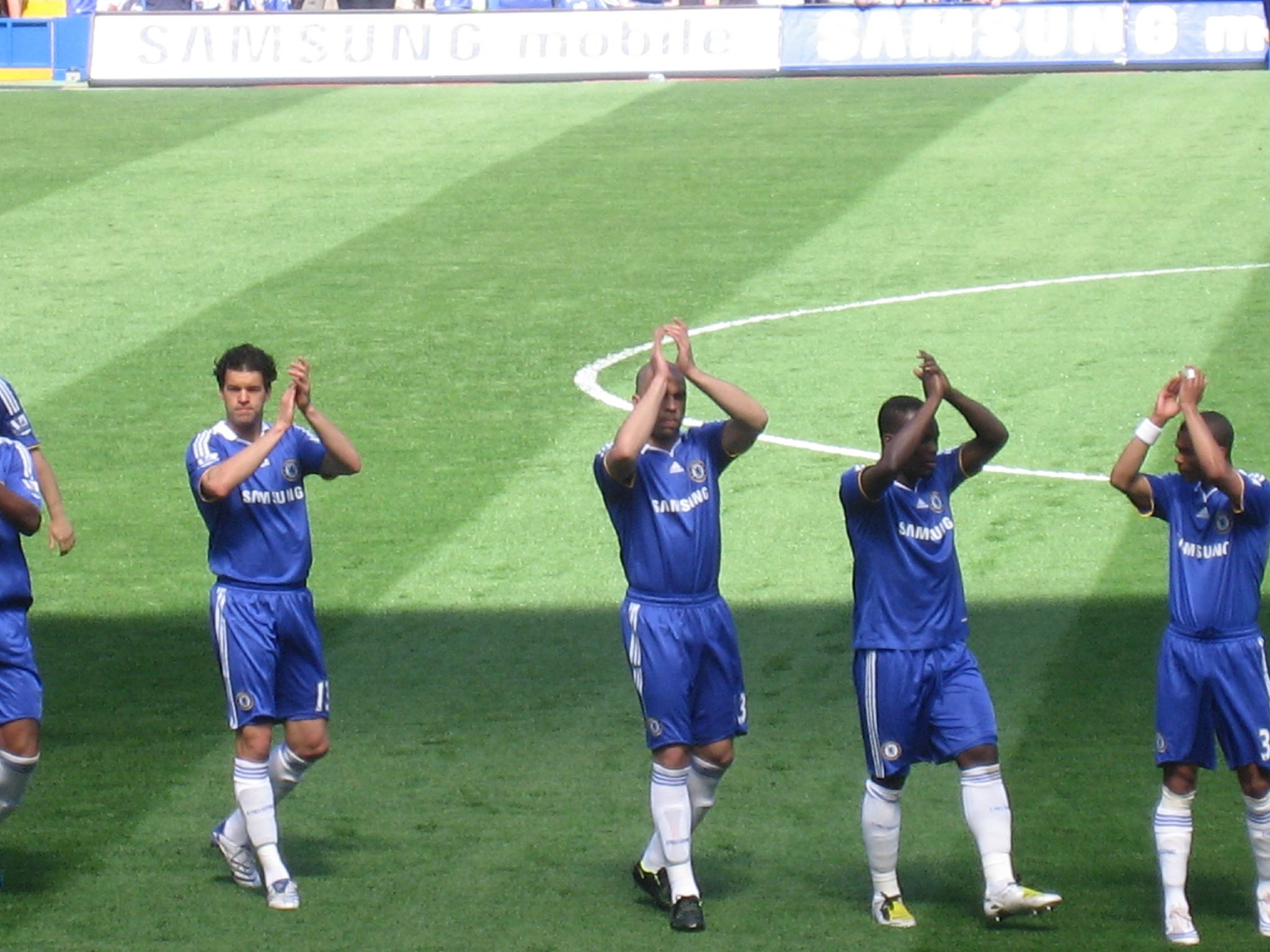 Chelsea players in 2009